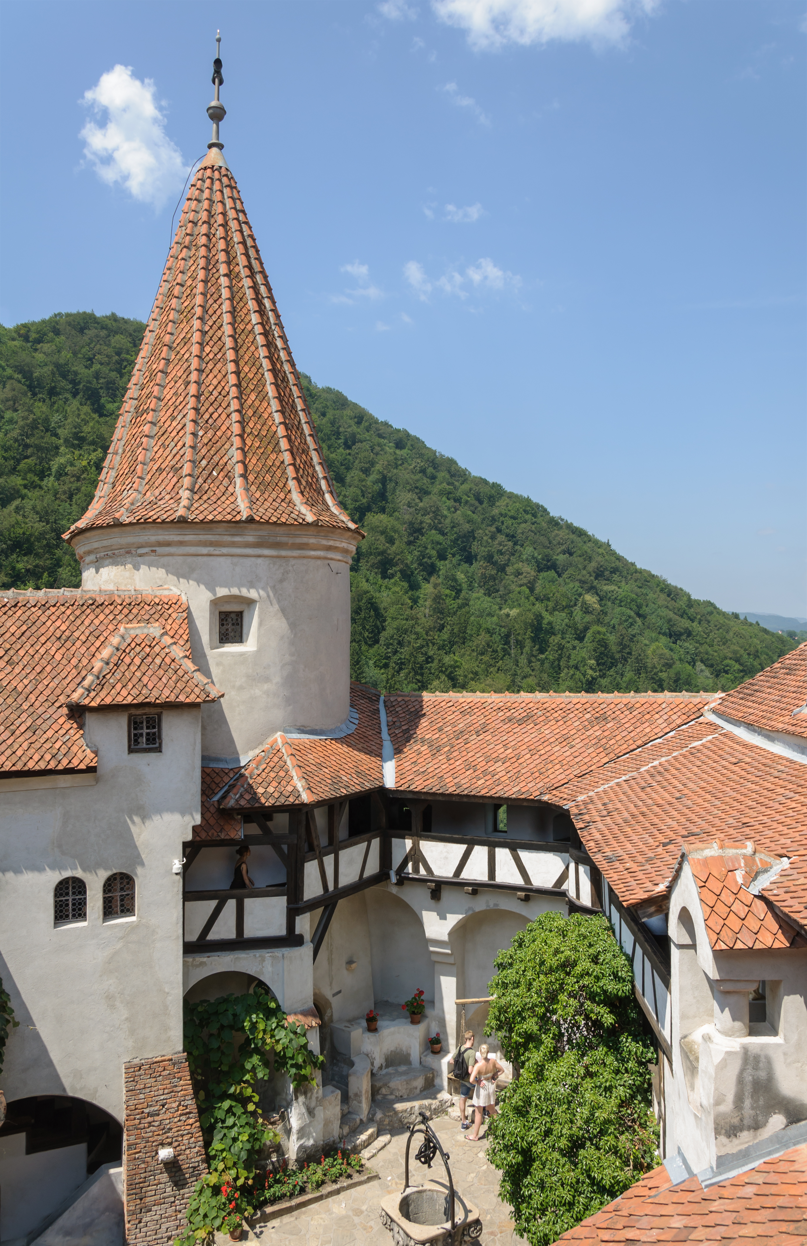 The courtyard and the round tower of Bran Castle, in Braşov County, Transylvania, Romania.